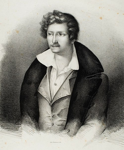 Lithograph portrait of Italian baritone Vincenzo Negrini (1804-1840) . The portrait is held in the Archivi Teatro Napoli.